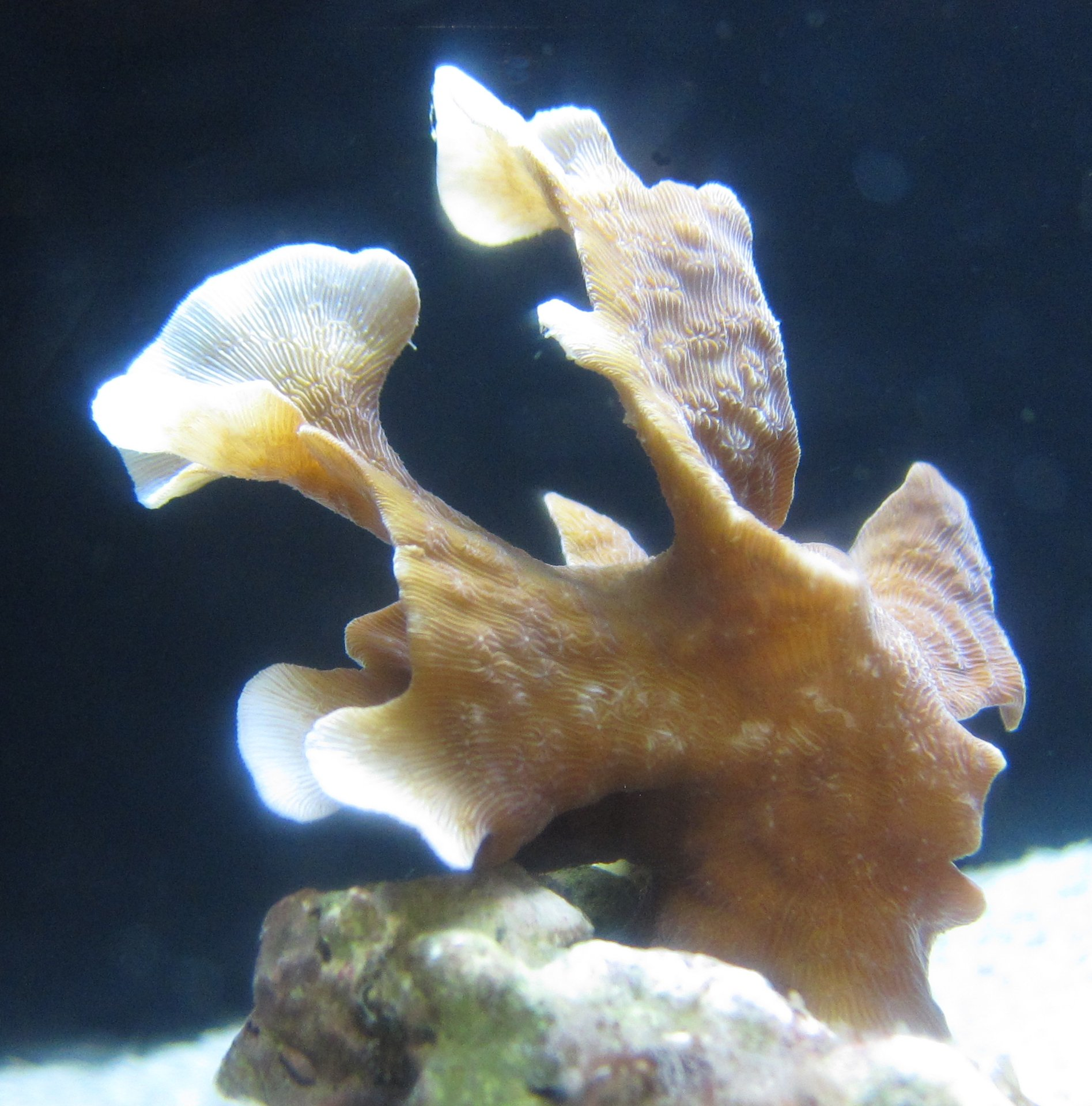 Potato chip coral (Pavona cactus), Waikiki Aquarium